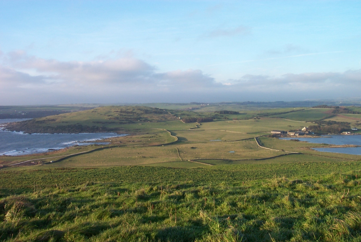 From Meikle Ross to the Mull of Ross